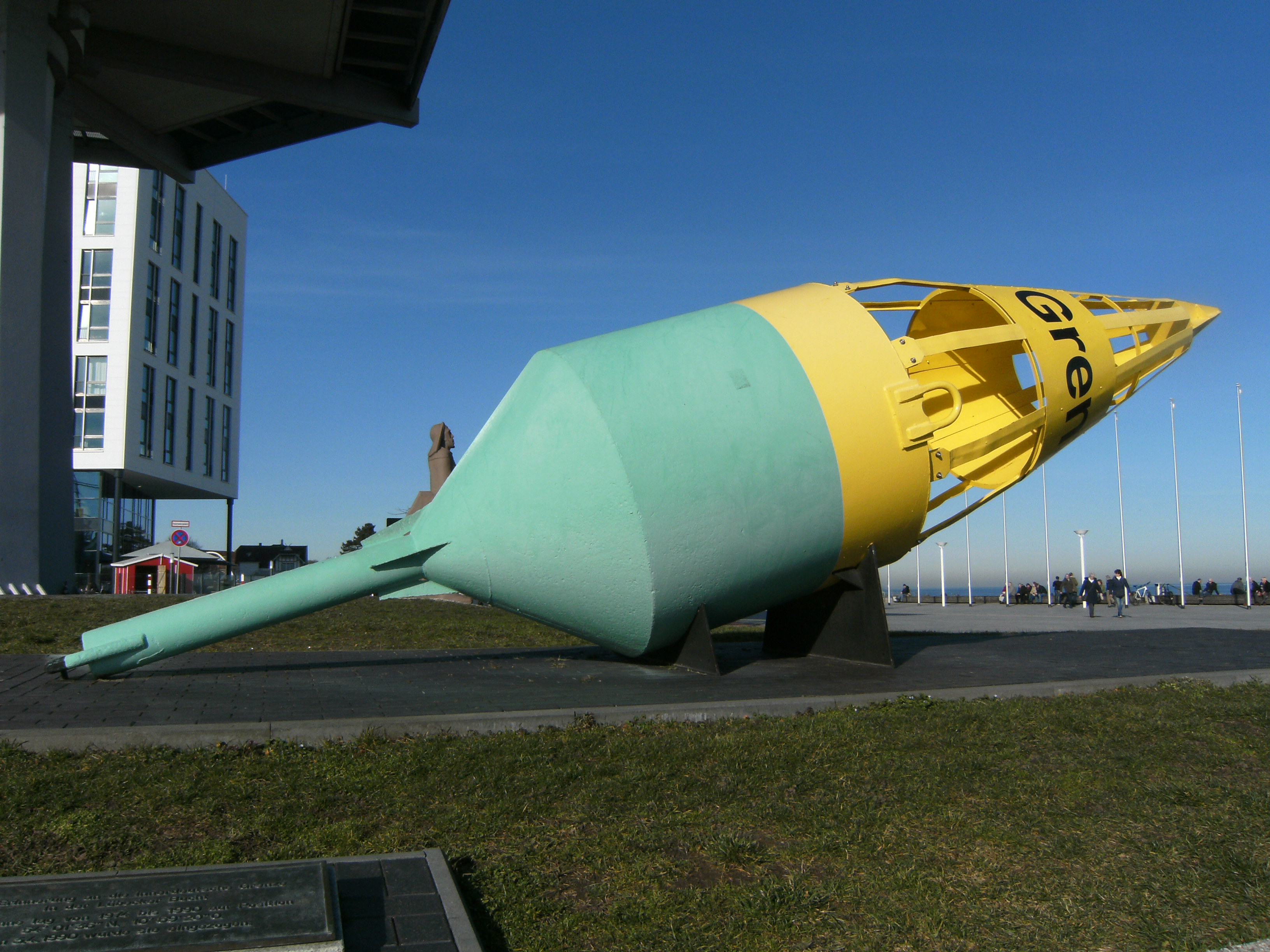 Travemünde, Germany, Travepromenade: Memorial: Historical inner German border buoy marking the border between former German Democratic Republic (DDR) and Federal German Republic in the Baltic Sea.